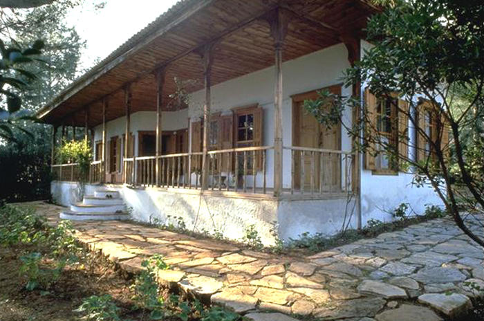 Traditional Turkish house — conceived and built by Nail Çakırhan, recipient of the 1983 Aga Khan Award for Architecture. Located in Akyaka, Muğla, Turkey